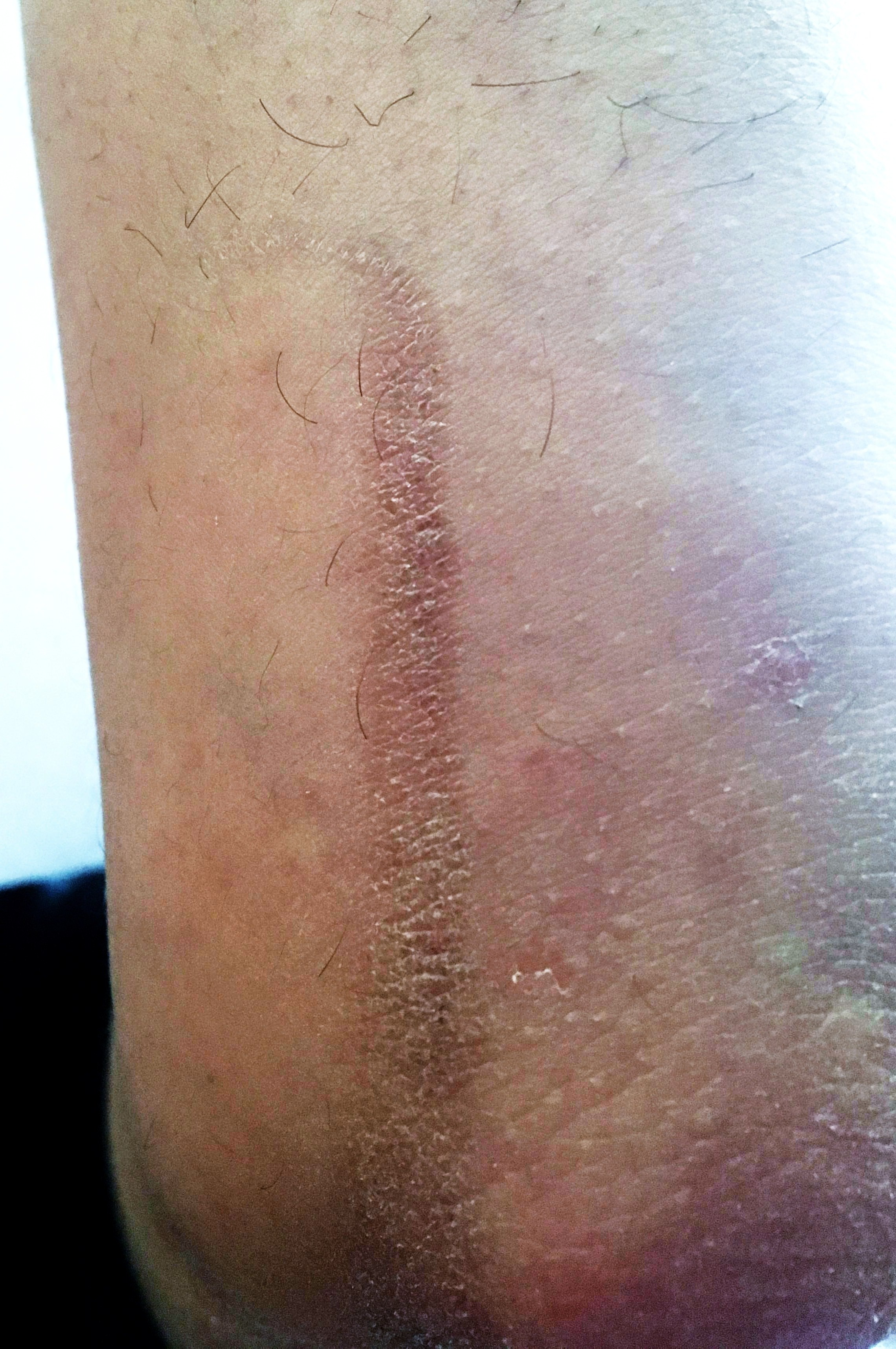 Mild chemical burn (3 days old) caused by glacial acetic acid (forearm skin)